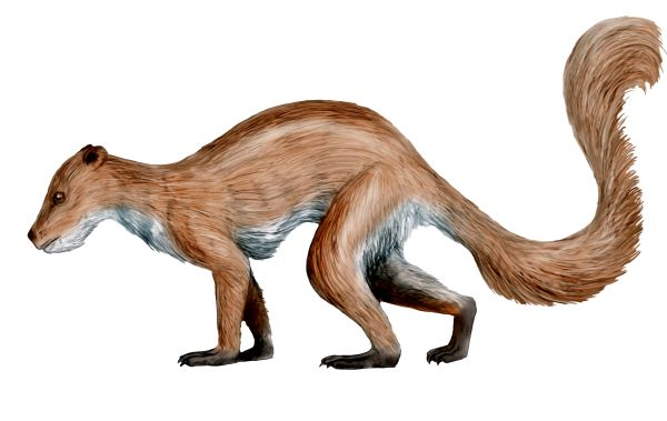 Plesiadapis